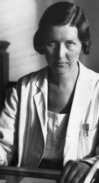 Kirsten Sinding-Larsen (1898–1978), Norwegian architect. Photographer unknown. The picture belongs to the collections of Oslo Museum, item no. OB.F06425a.